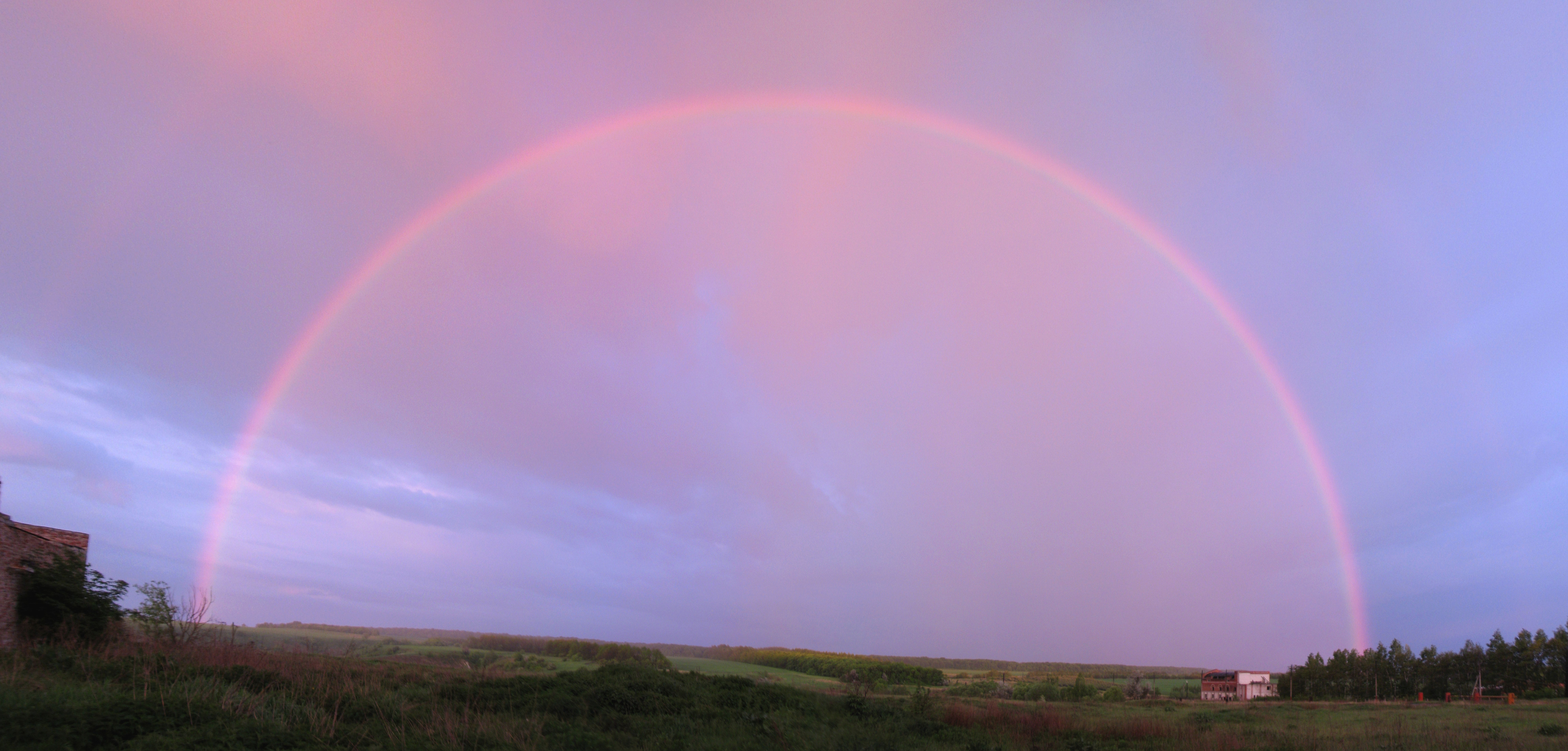 Rainbow at Storozhevoe (Ostrogozhsky raion, Voronezhskaya oblast', Russia)